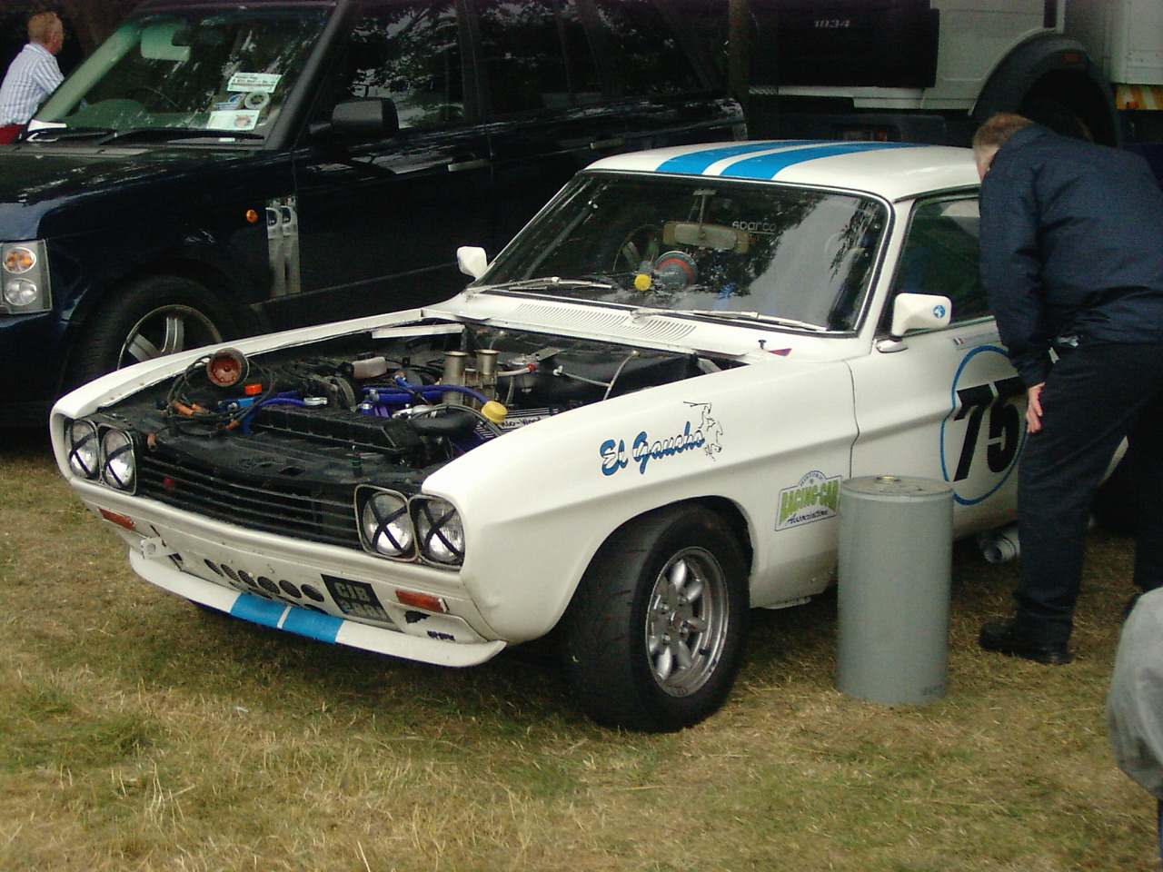 Description :nl:Ford Capri op de Phoenix Park Motor races 2006 Date13 August 2006SourceOwn workAuthorJan CleveringPermission(Reusing this file) n.v.t. :nl:Ford Capri op de Phoenix Park Motor races 2006